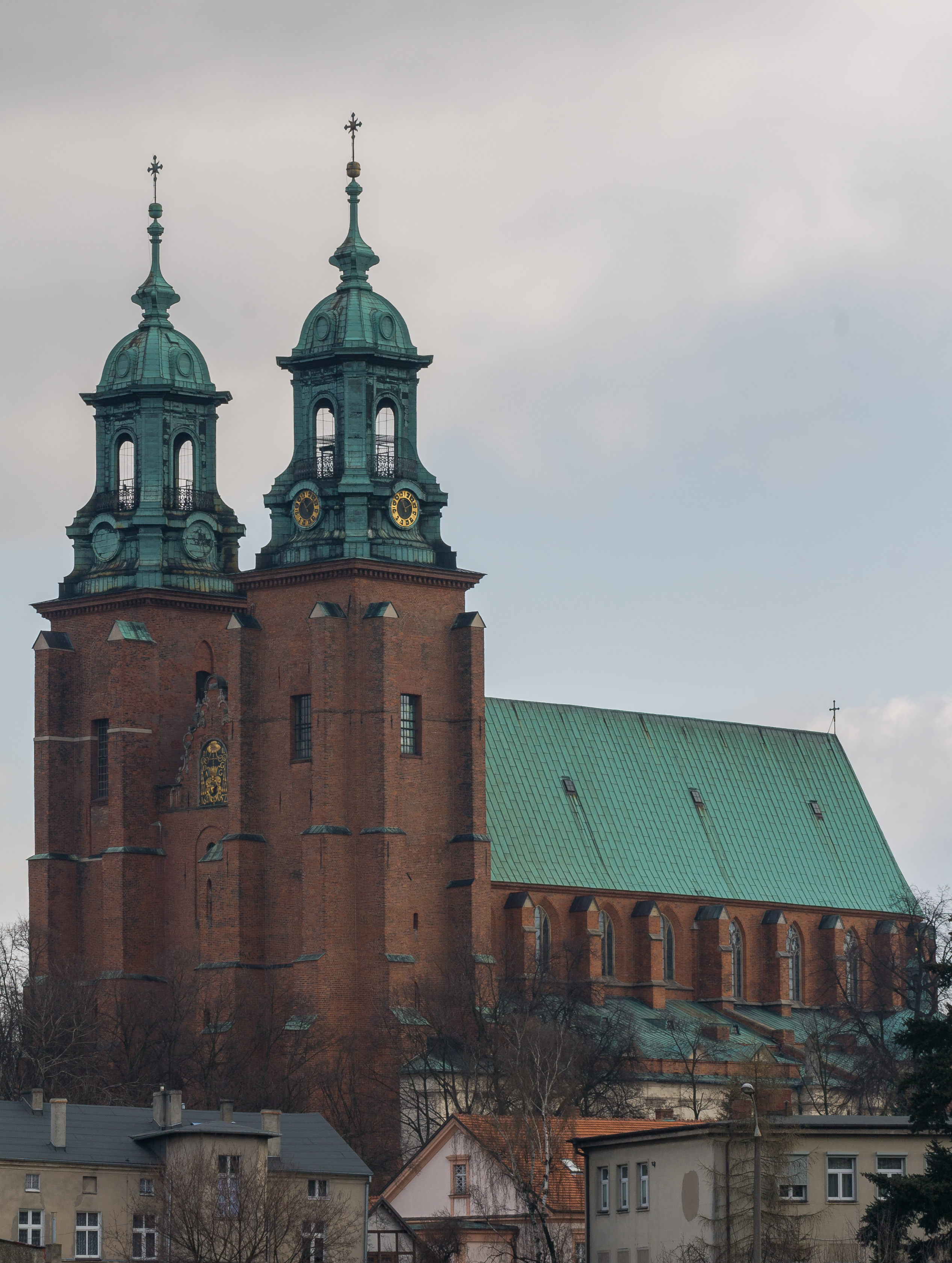 Gniezno Cathedral, Gniezno, Poland